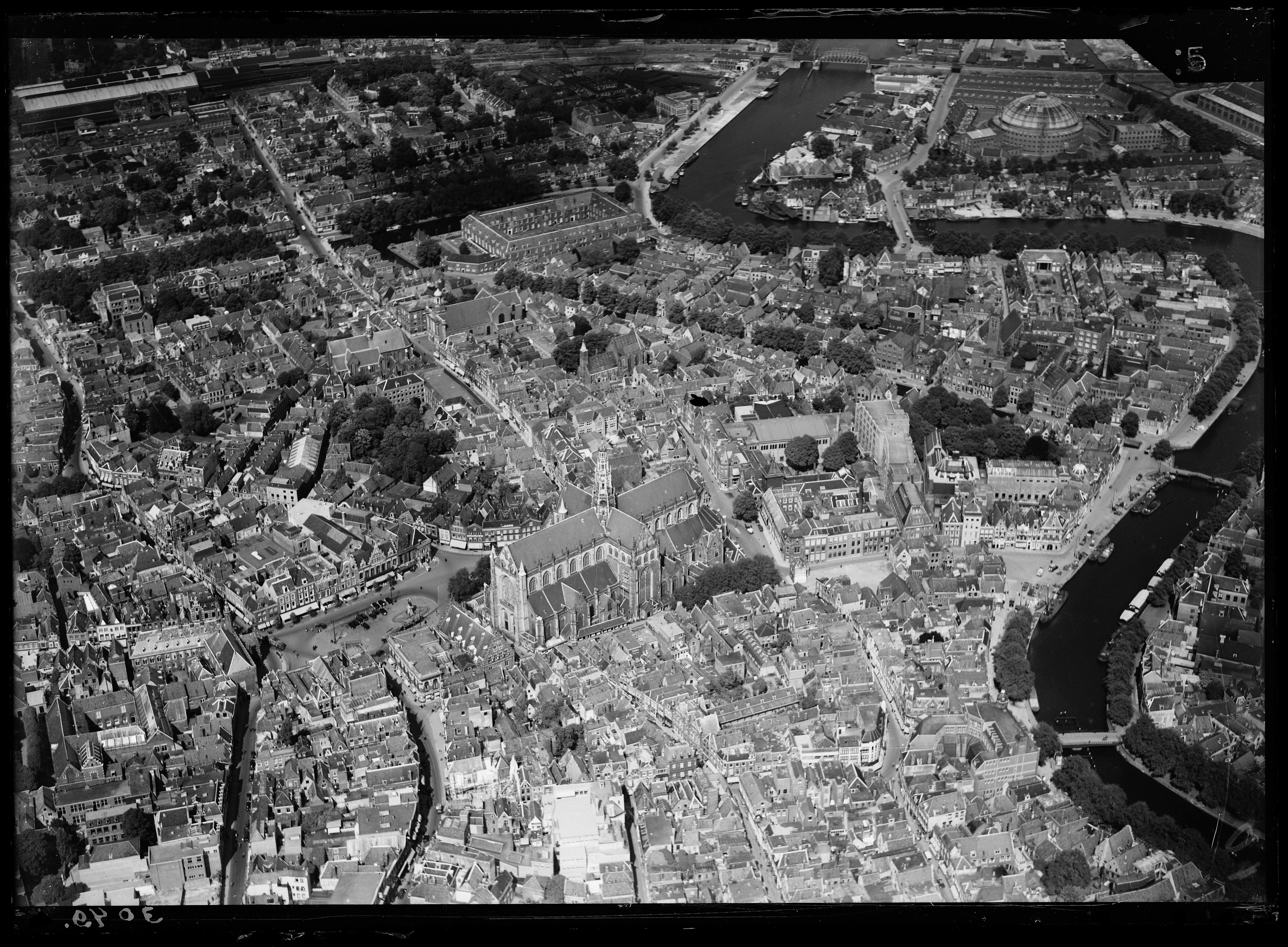 Aerial photograph of Haarlem, The Netherlands